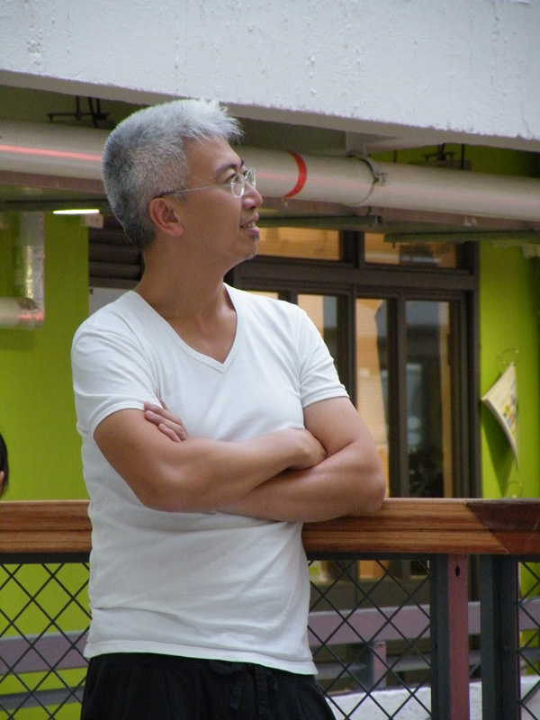 歐陽應霽 stood at the The Jockey Club Creative Arts Centre, Hong Kong.